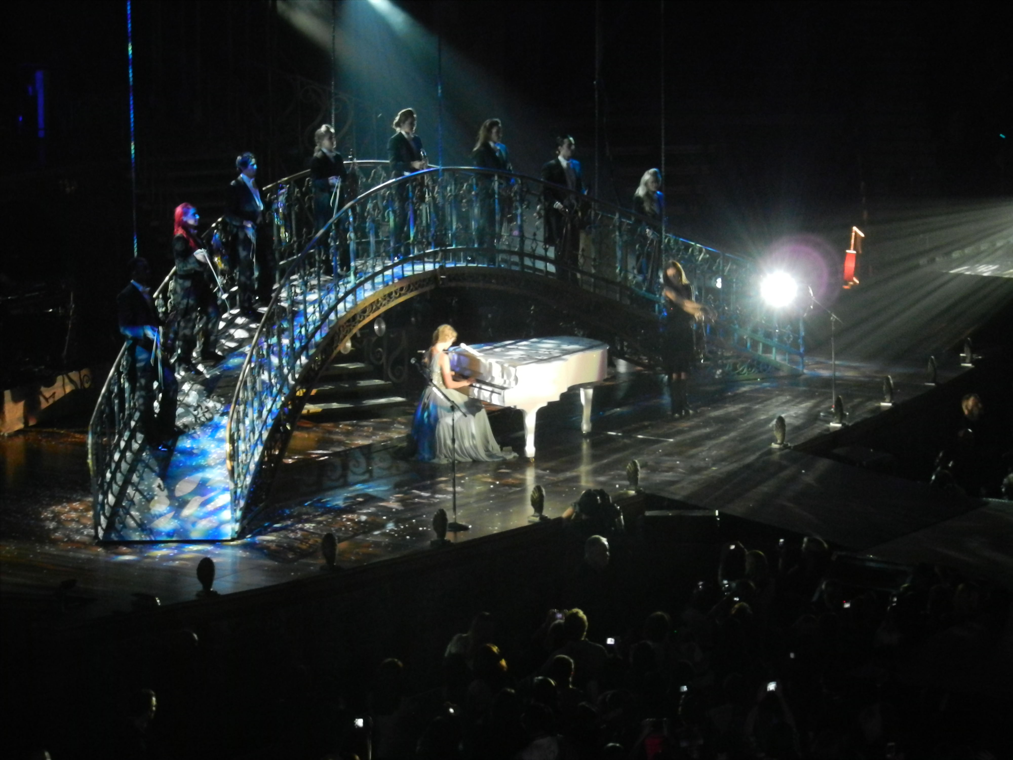 Taylor Swift Live in Vancouver in 2011